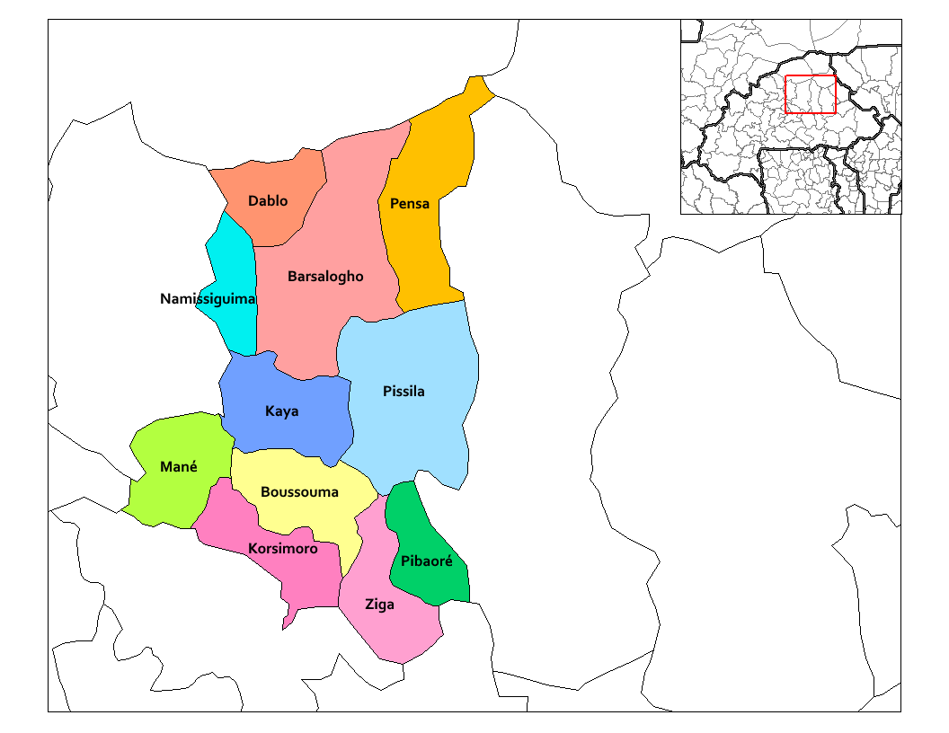 This map has been uploaded by Osiris fancy from to enable the Wikimedia Atlas of the World. Original uploader to was Rarelibra. Osiris fancy is not the creator of this map. Licensing information is below. Map of the departments of Sanmatenga province in Burkina Faso. Created by Rarelibra 03:34, 30 September 2006 (UTC) for public domain use, using MapInfo Professional v8.5 and various mapping resources.